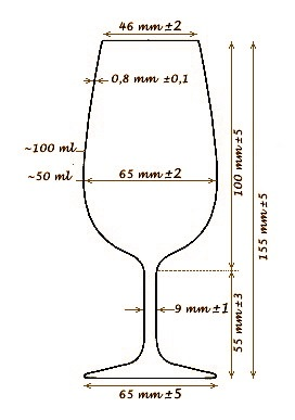 Wine-tasting glass. INAO/ISO 3591:1977